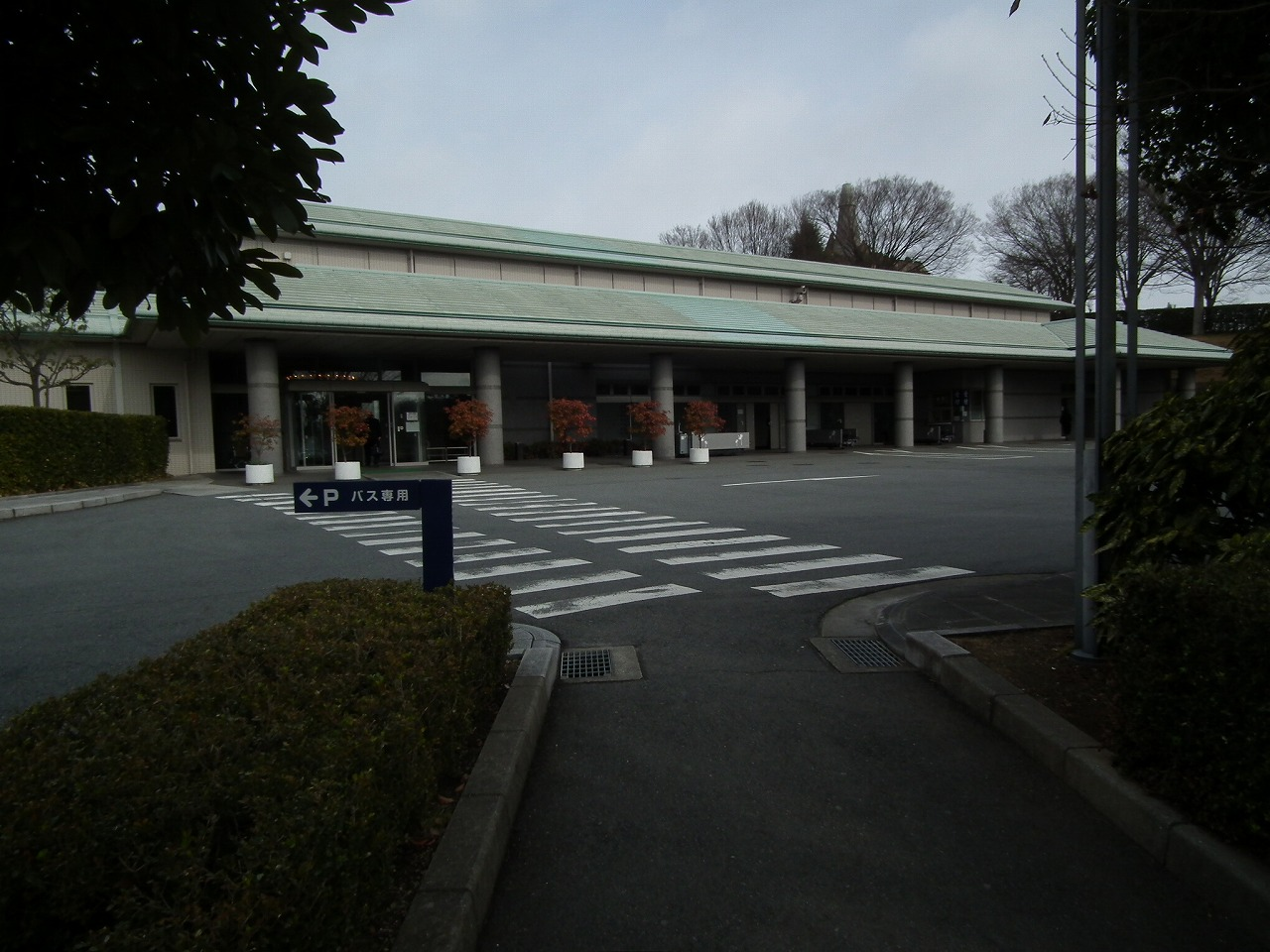 Nagoyama-saijo